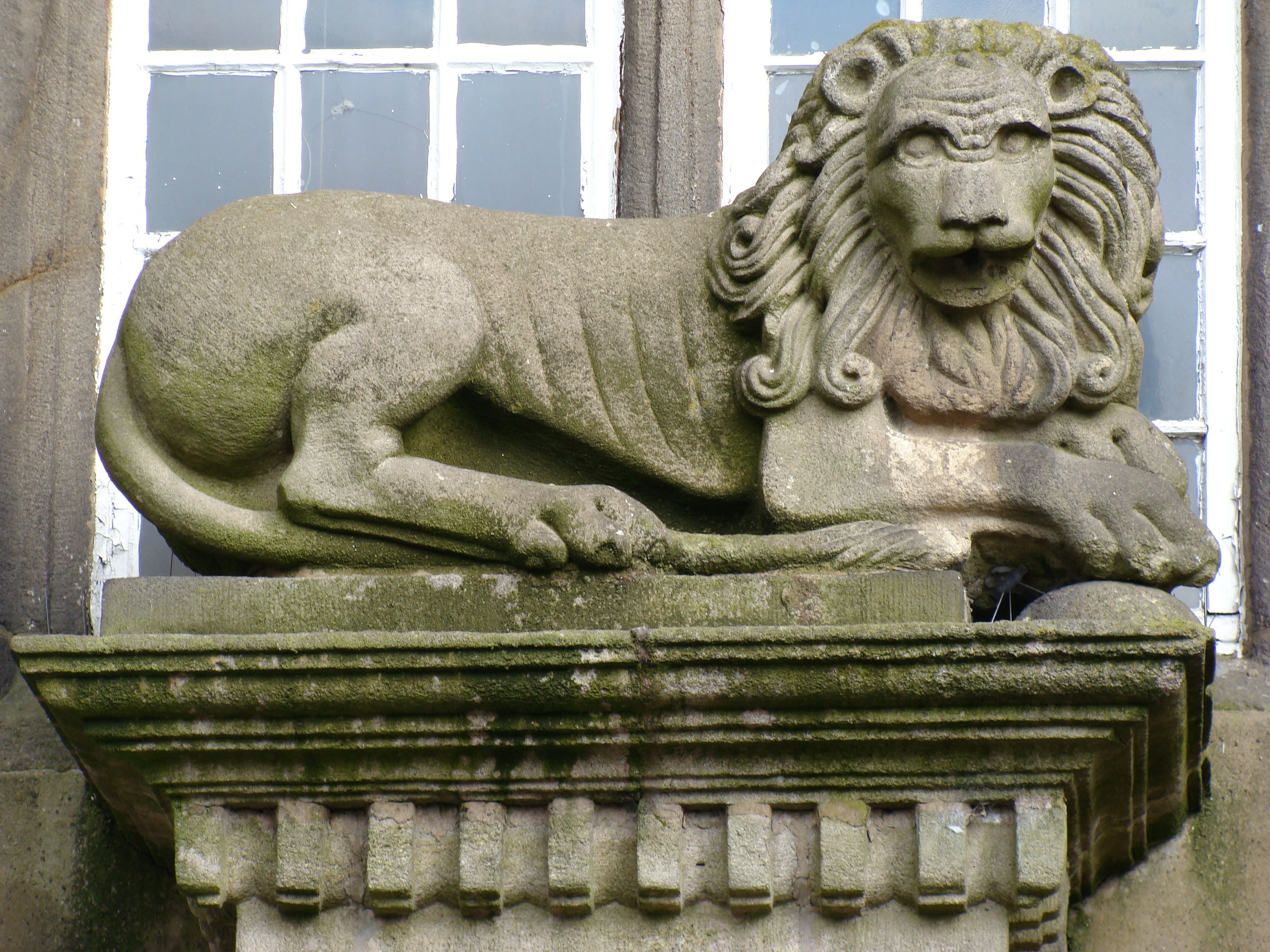 Astley Hall, Chorley, Lancashire. Detail, one of a pair of carved stone lions at the entrance.